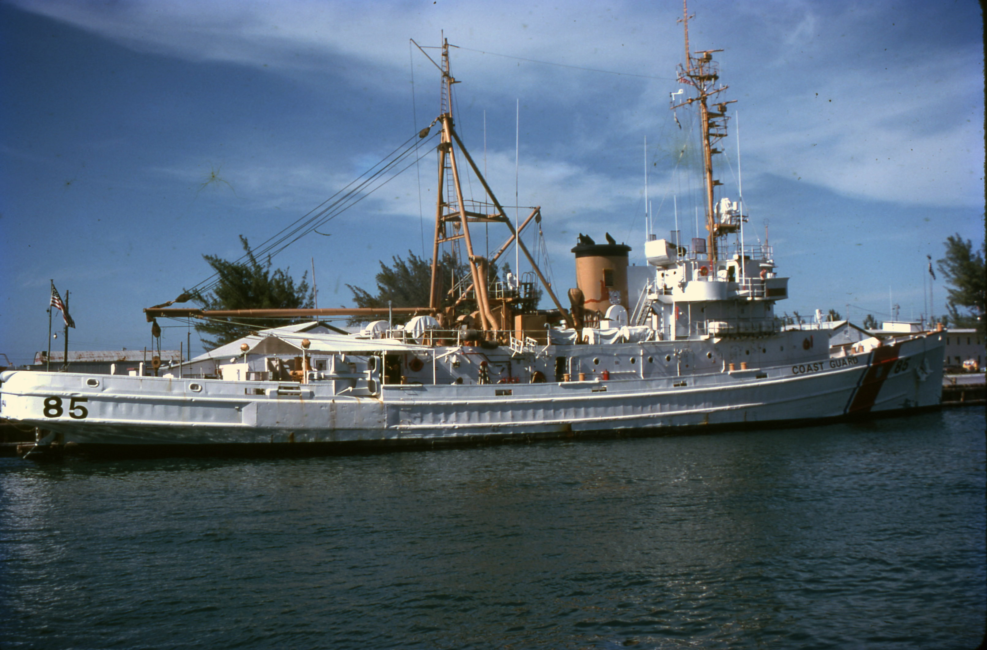 Coast Guard Cutter (USCGC Lipan (WMEC 85) at Trumbo Point. Photo by Raymond L. Blazevic.